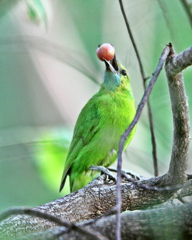 Jerdon's leafbird